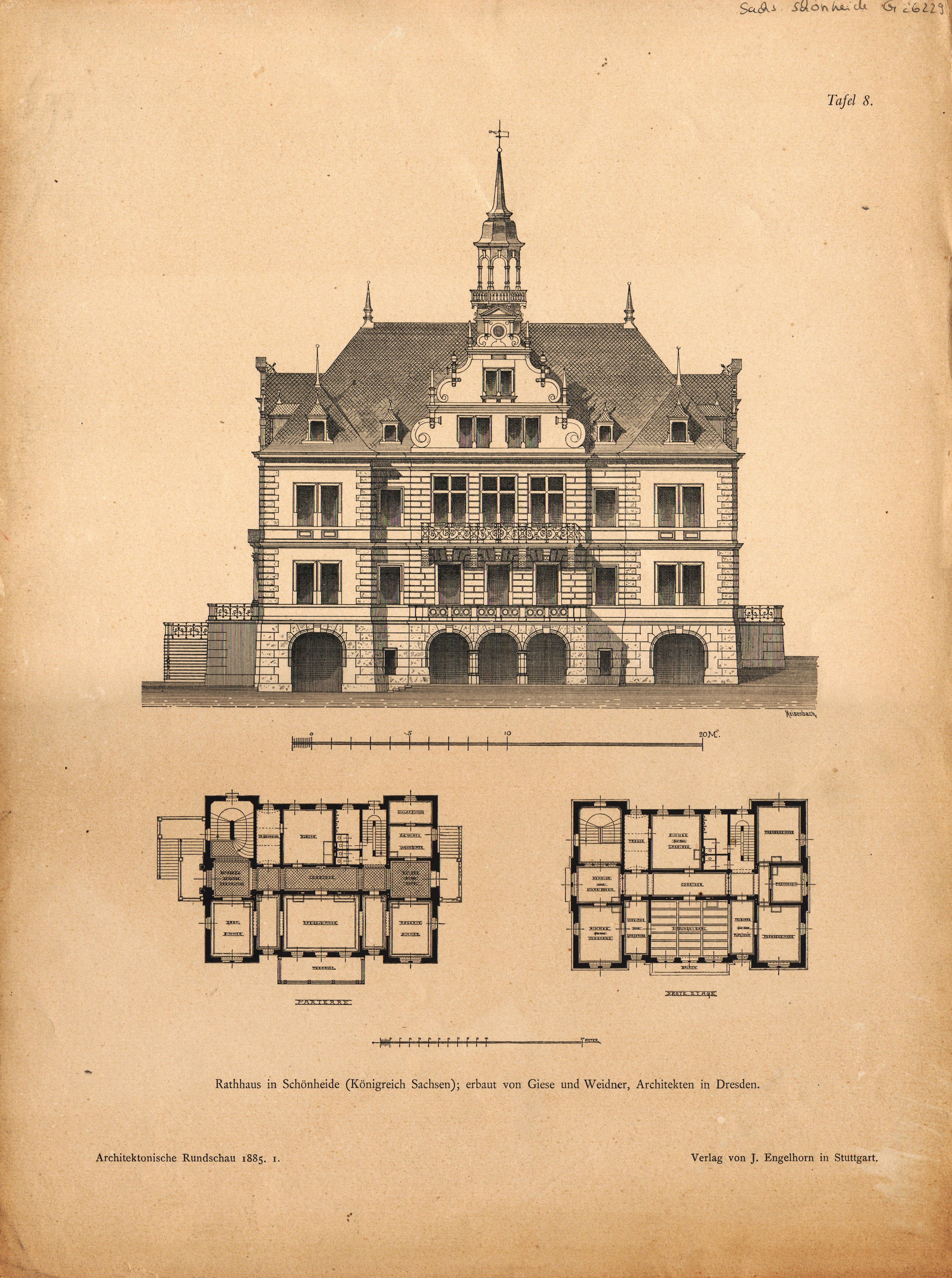 Townhall of Schönheide from 1882. Architecture: Neorenaissance. This is a photograph of an architectural monument.It is on the list of cultural monuments of Schönheide